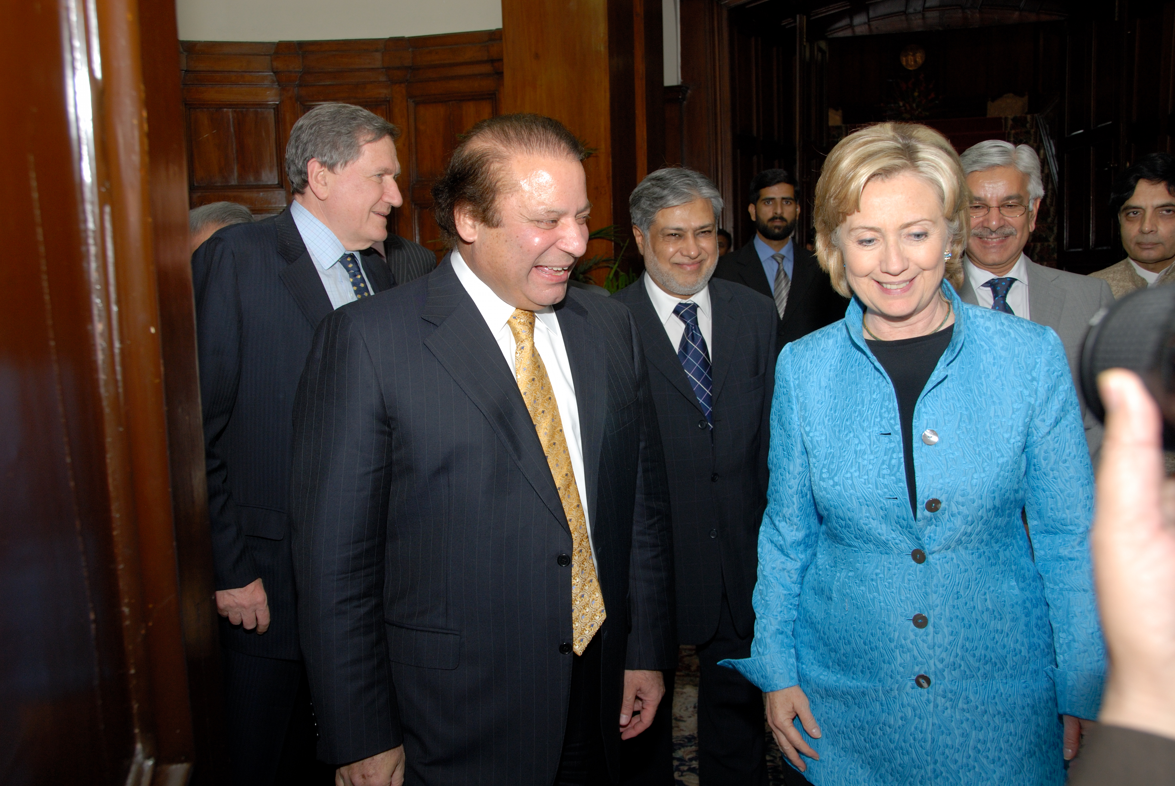 U.S. Secretary of State Hillary Rodham Clinton with former Prime Minister of Pakistan Nawaz Sharif at his residence in Lahore, Pakistan.